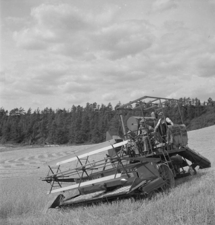 Modern Farming- Agriculture in Britain, 1943 Two agricultural workers operate their combine harvester on a sunny wheat field in Hampshire. The self-propelled harvester covers three processes in one: it cuts the corn, separates the wheat and pours it into sacks, and discharges the straw on the ground. One worker drives the vehicle, whilst the other deals with adjusting and filling the sacks. According to the original caption, because a tractor is not needed to pull the harvester, no damage is done to the crops and an entire field can be cultivated.